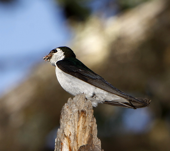 This male Violet-green Swallow has returned to the nesting site with a beak full of insects for it's young.